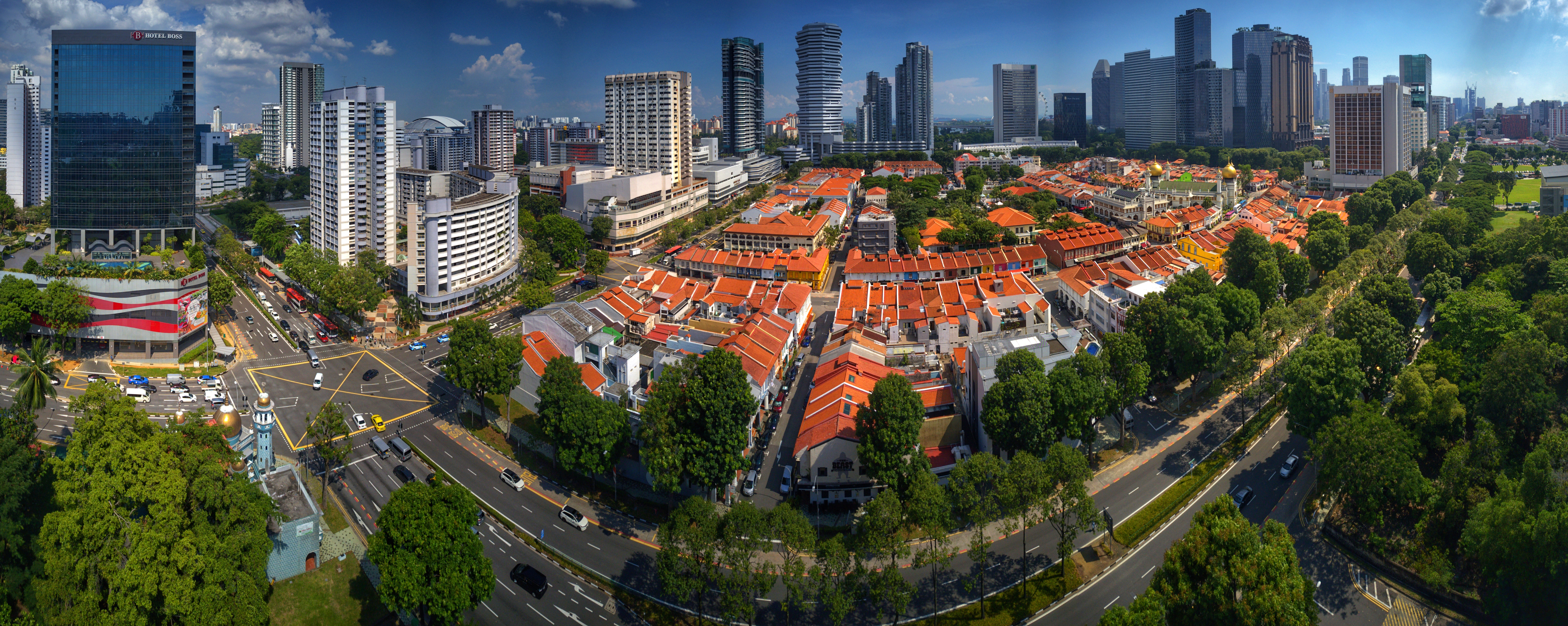 Aerial perspective of Kampong Glam. October 2018.